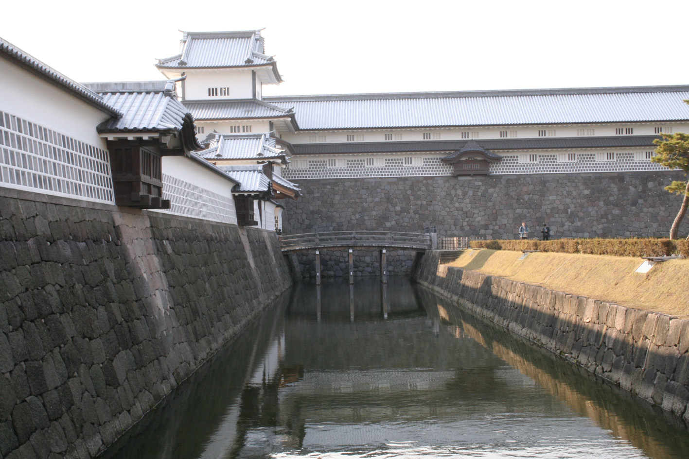 Kanazawa Castle, photo taken by Georgi Georgiev